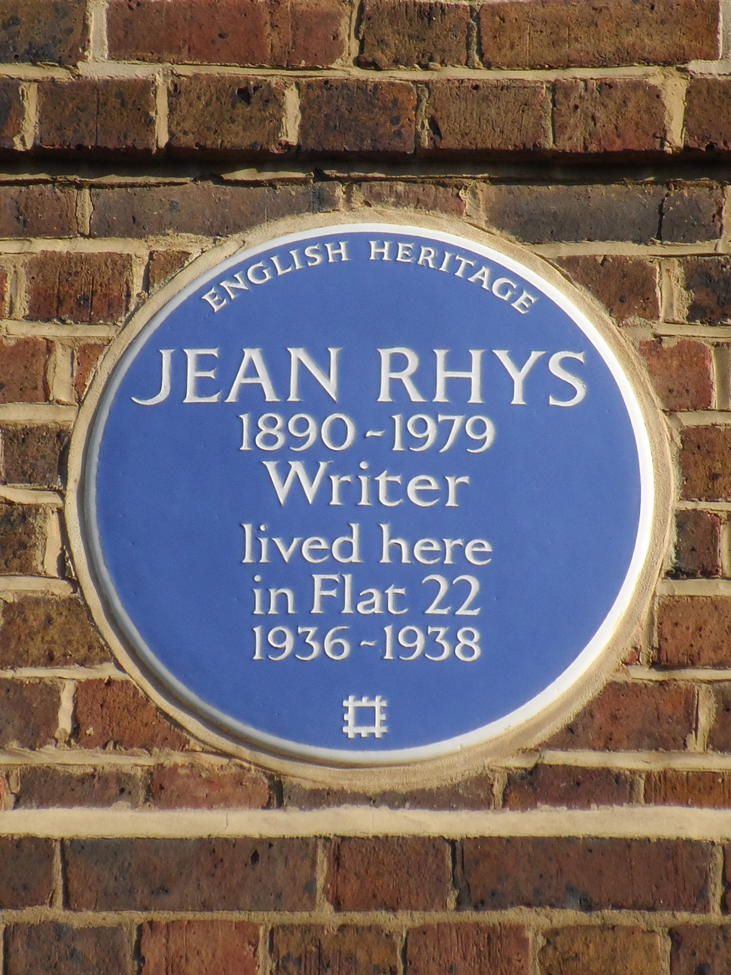 Blue plaque erected in 2012 by English Heritage at Paultons House, Paultons Square, Chelsea, London SW3 5DU, Royal Borough of Kensington and Chelsea